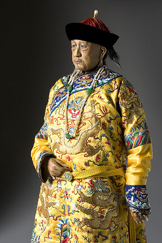 Historical Mixed Media Figure of Chinese Emperor Chien Lung produced by artist/historian George S. Stuart and photographed by Peter d'Aprix. This image, from the George S. Stuart Gallery of Historical Figures® archive ( is provided for all uses with appropriate attribution. Any derivatives must be shared in the same manner. Contributor mharrsch is webmaster for the gallery site